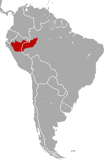 Nancy Ma's Night Monkey (Aotus nancymaae) range